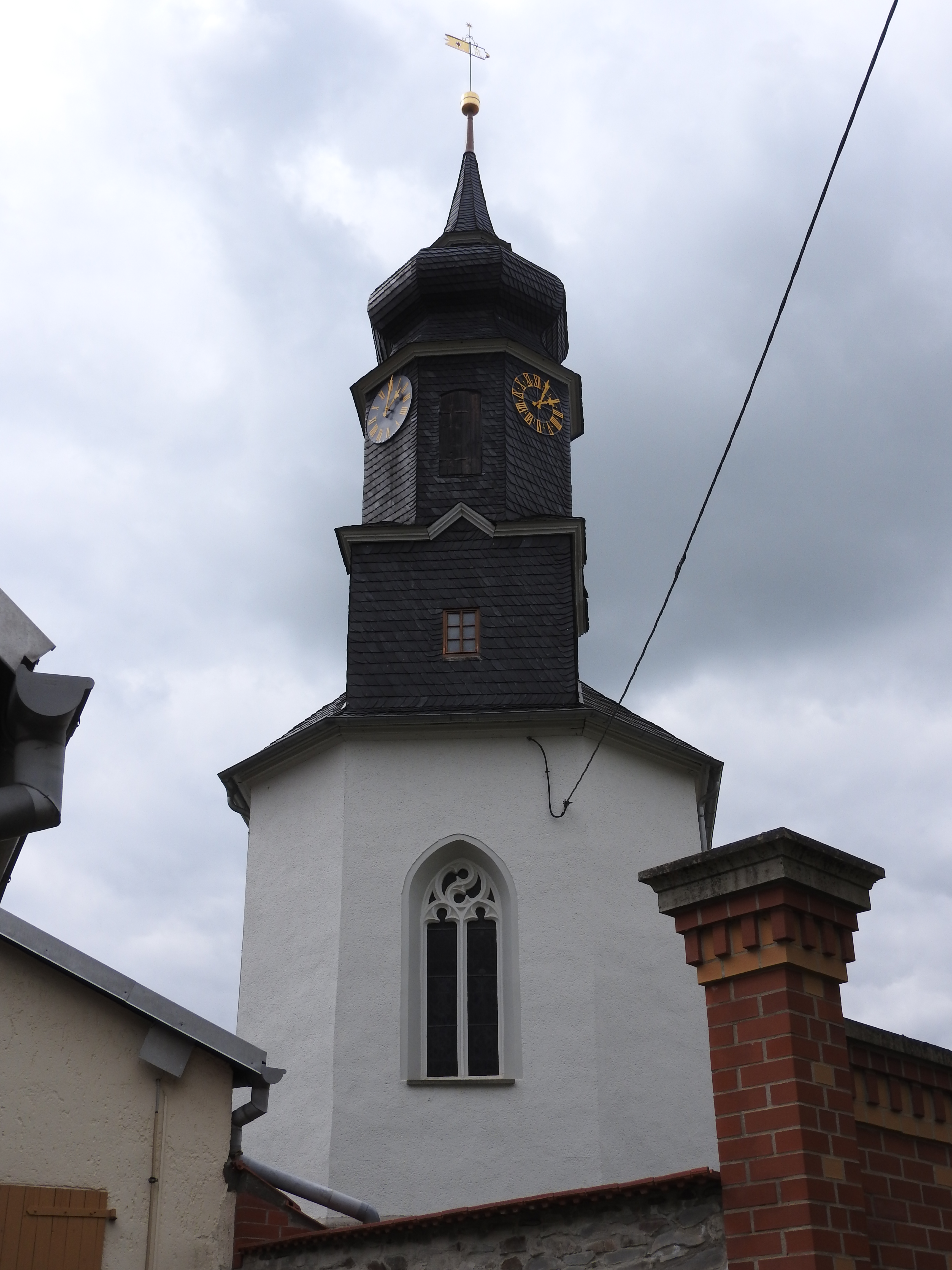 Kirche in Schmieritz, Thüringen